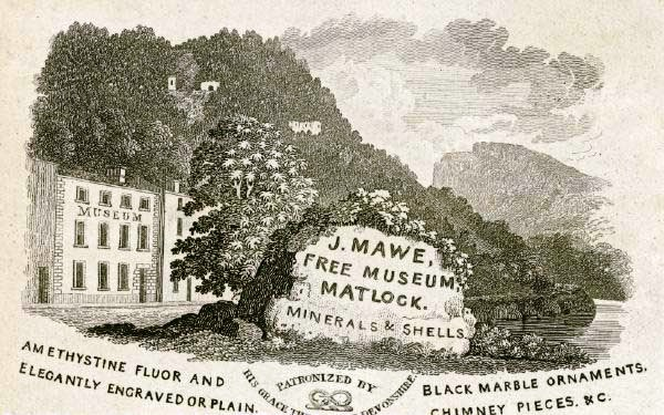 J Mawe's Free Museum - (The Royal Museum), now the South Parade, Matlock Bath, c 1830